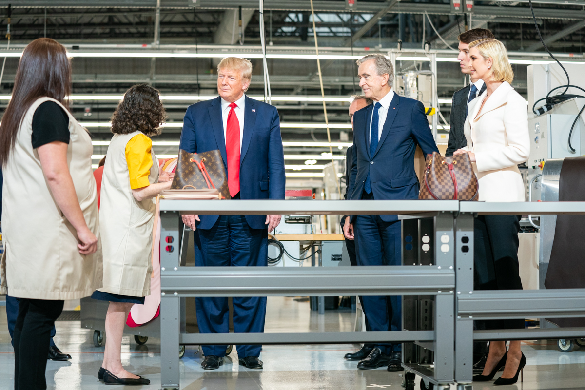 President Donald J. Trump visits and speaks with workers, as he is joined by Bernard Arnault, CEO of LVMH Moet Hennessy; Carlos Sousa the general manager of Louis Vuitton Manufacturing USA, and Advisor to the President Ivanka Trump, during a tour Thursday, October 17, 2019, at the Louis Vuitton Workshop- Rochambeau in Alvarado, Texas. (Official White House Photo by Shealah Craighead)